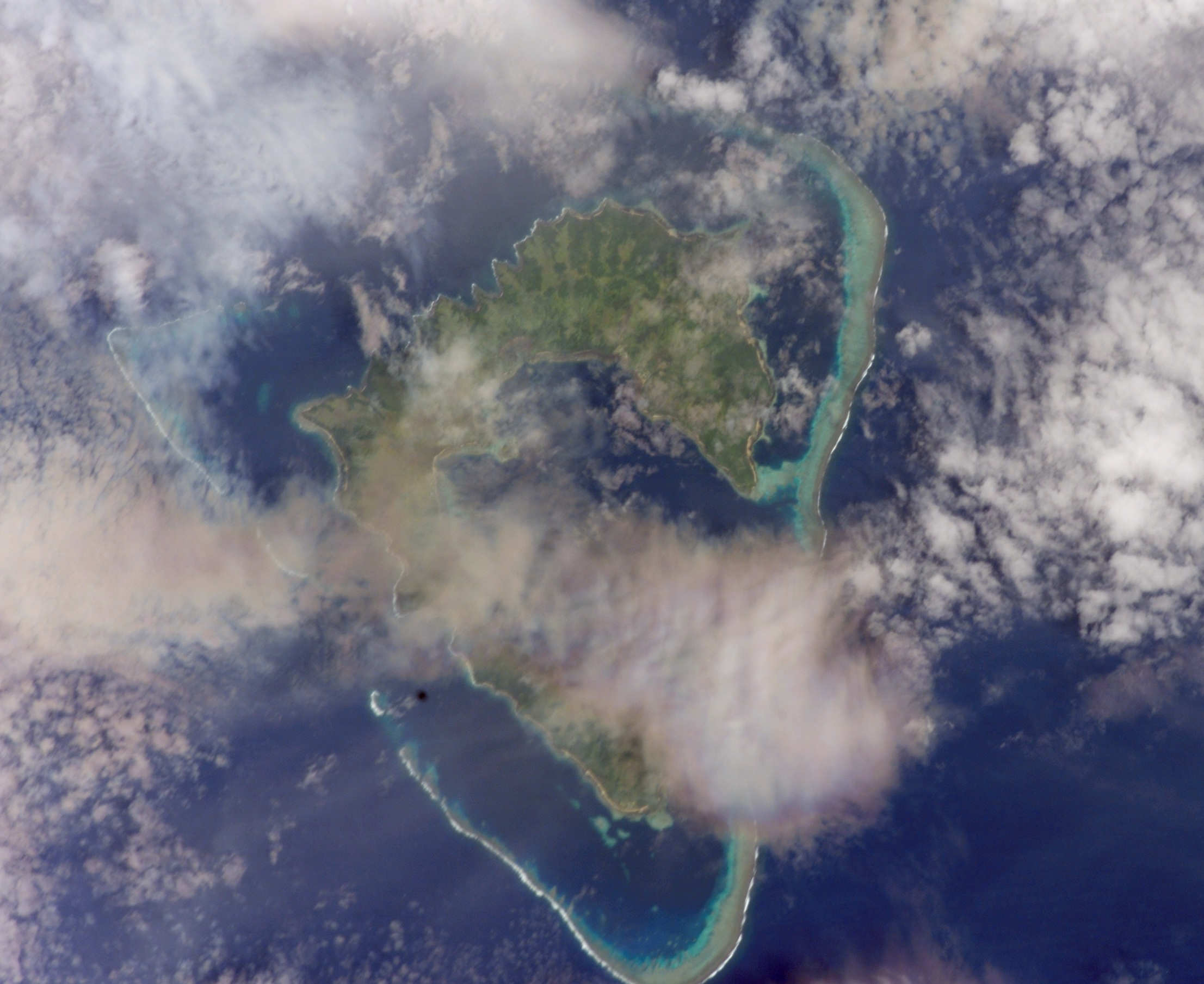 NASA astronaut image of Totoya, Moala Group, Lau Archipelago, Fiji